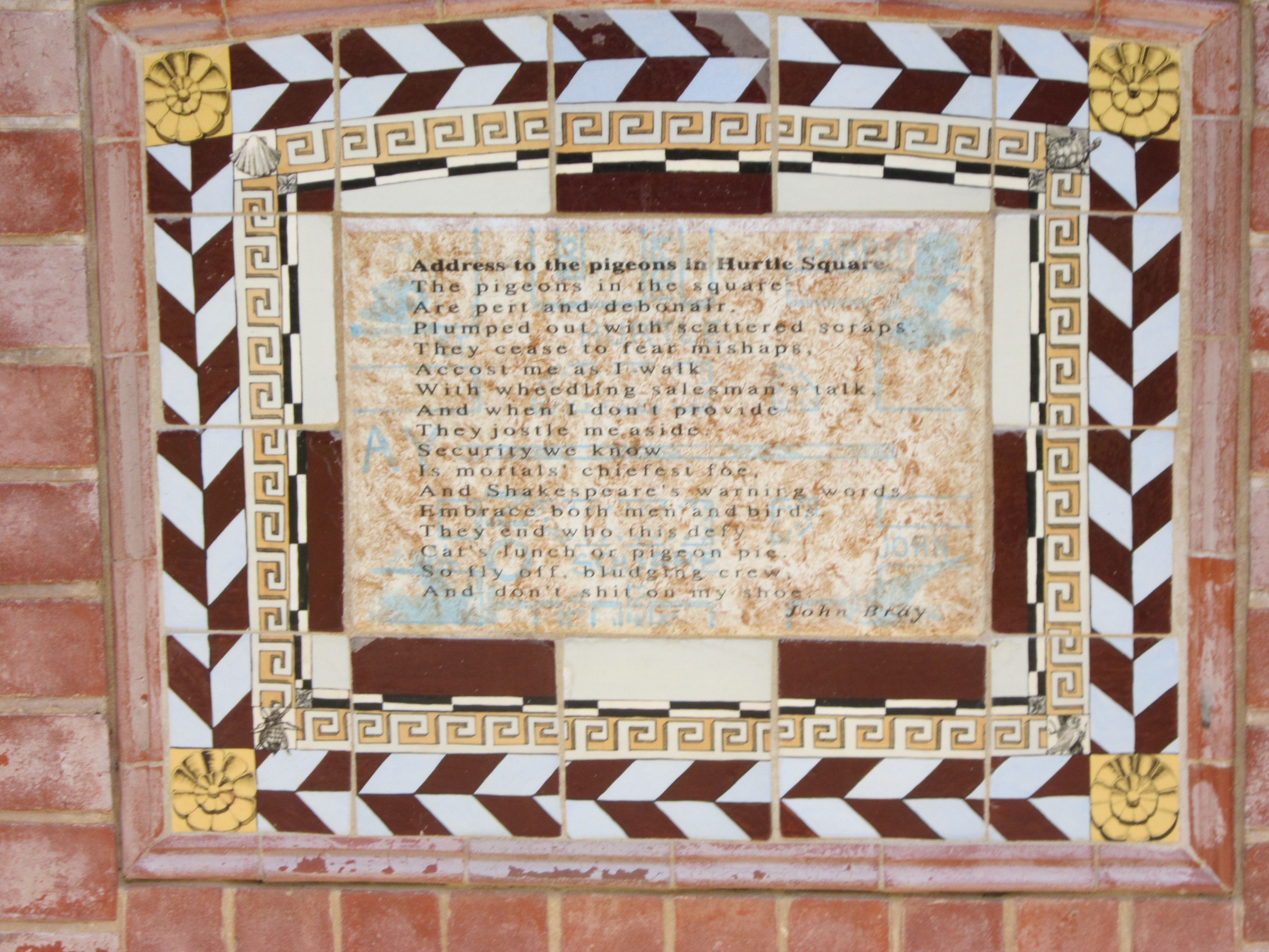 An image of a poem by John Jefferson Bray, poet and former Chief Justice of the South Australian Supreme Court, as it appears on a plinth in Hurtle Square, Adelaide, where Bray once lived